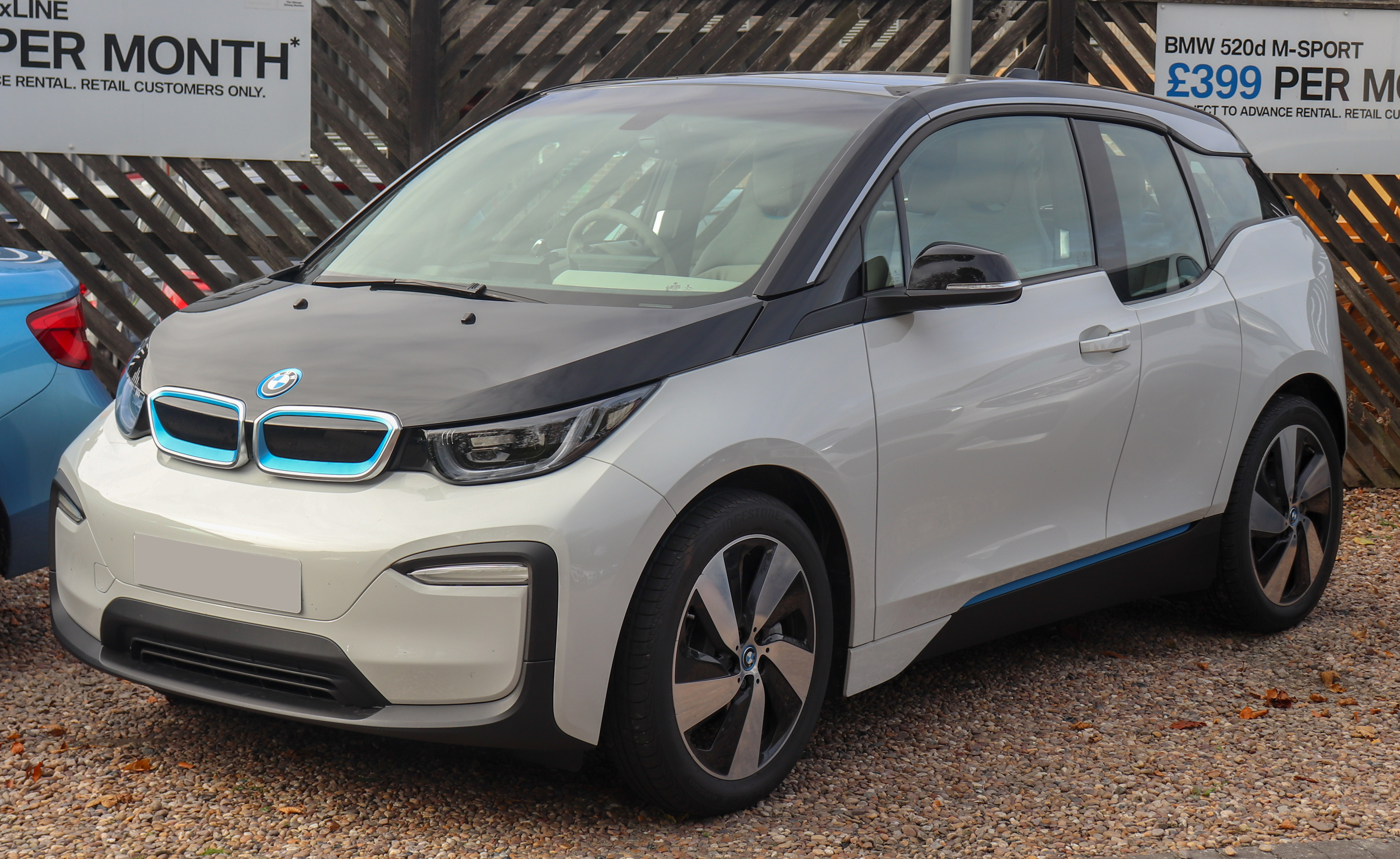 2018 BMW i3 facelift Taken in Leamington Spa